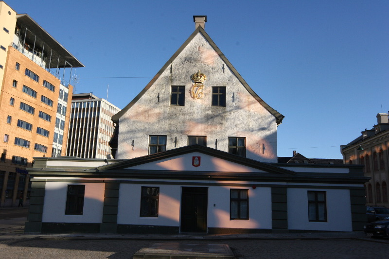 The old Rådhuset (Cityhall), Bergen (Norway)